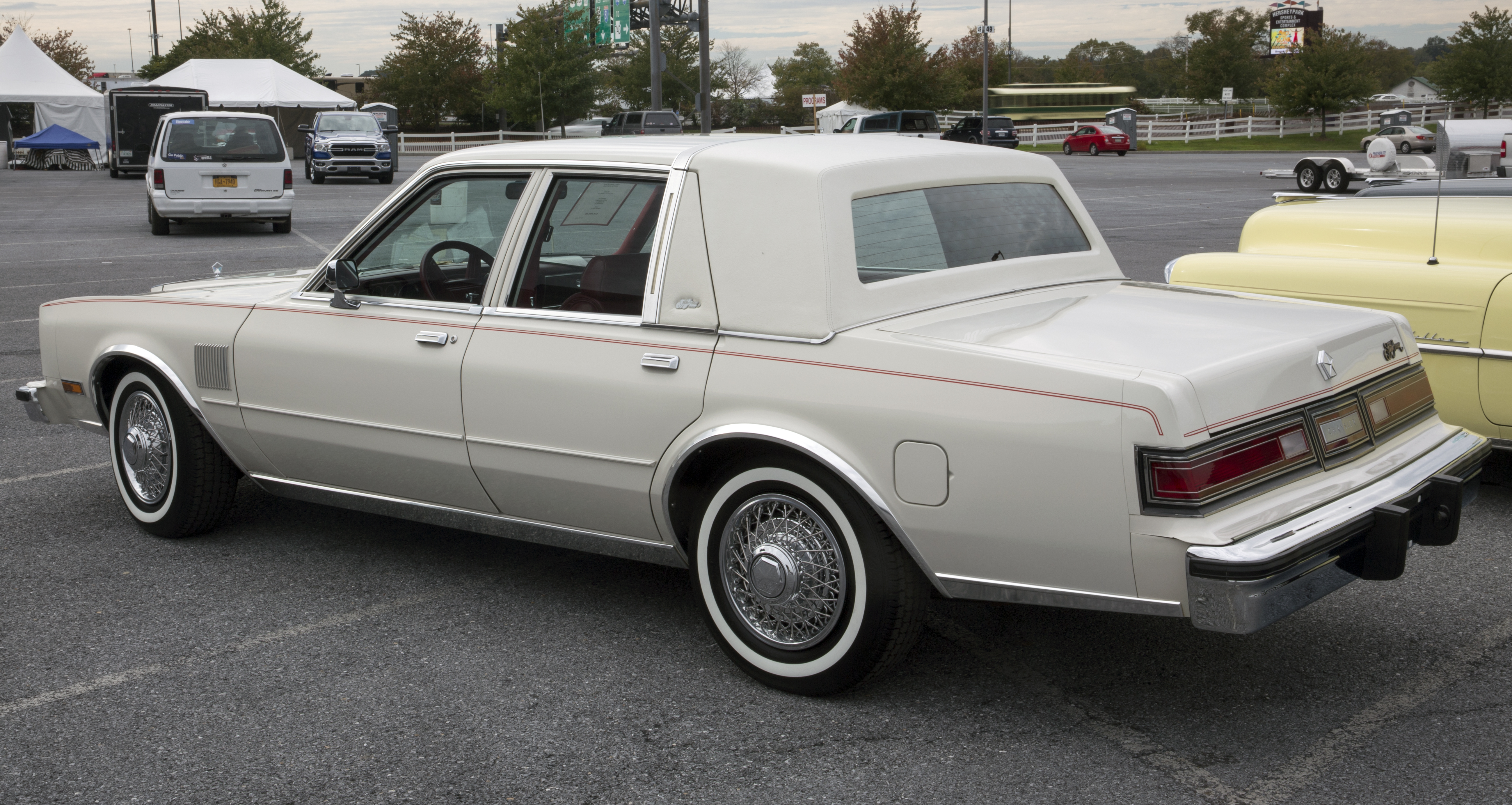 1985 Chrysler Fifth Avenue in the flea market area at Hershey 2019. One Tennessee family since new, 38,825 miles, 318 ci V8.